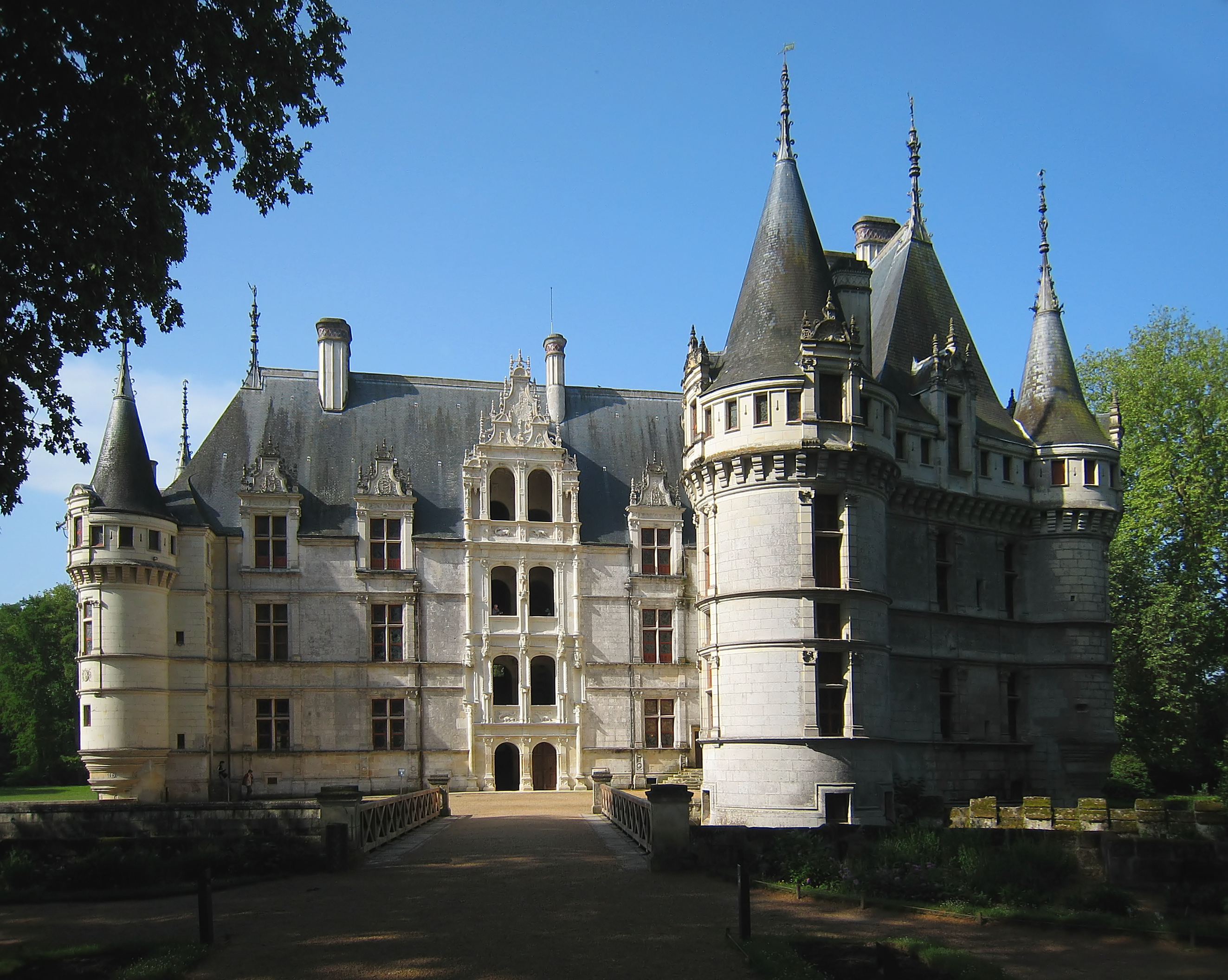 Château d'Azay-le-Rideau, access road